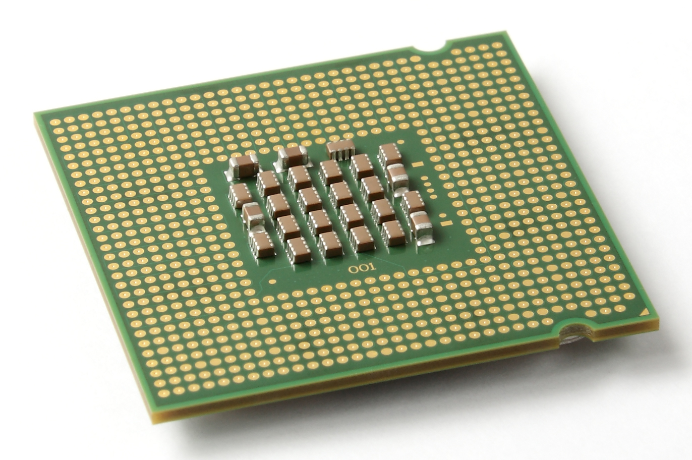 Bottom view of an Intel central processing unit Pentium 4 Prescott type core, model 640. LGA 775 socket, 90 nm process, frequency 3.20 GHz.